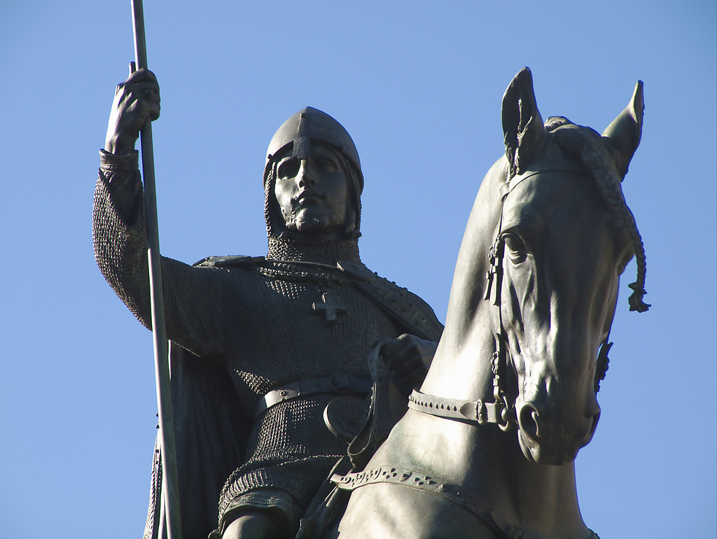 Saint Wenceslas, duke of the Czech land